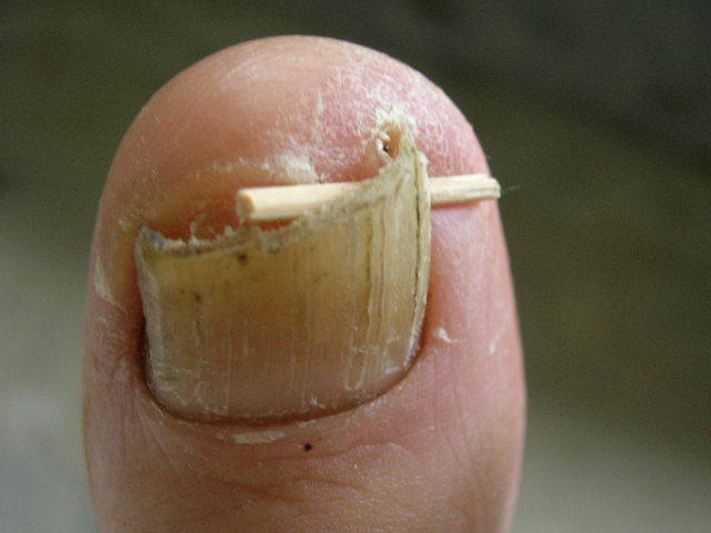 Toothpick segment placed underneath and across the toenail, a home remedy to prevent toenail from in-growing. Could perhaps use tape to secure, and remove altogether after a few days when the cut into the skin where the nail was has healed.